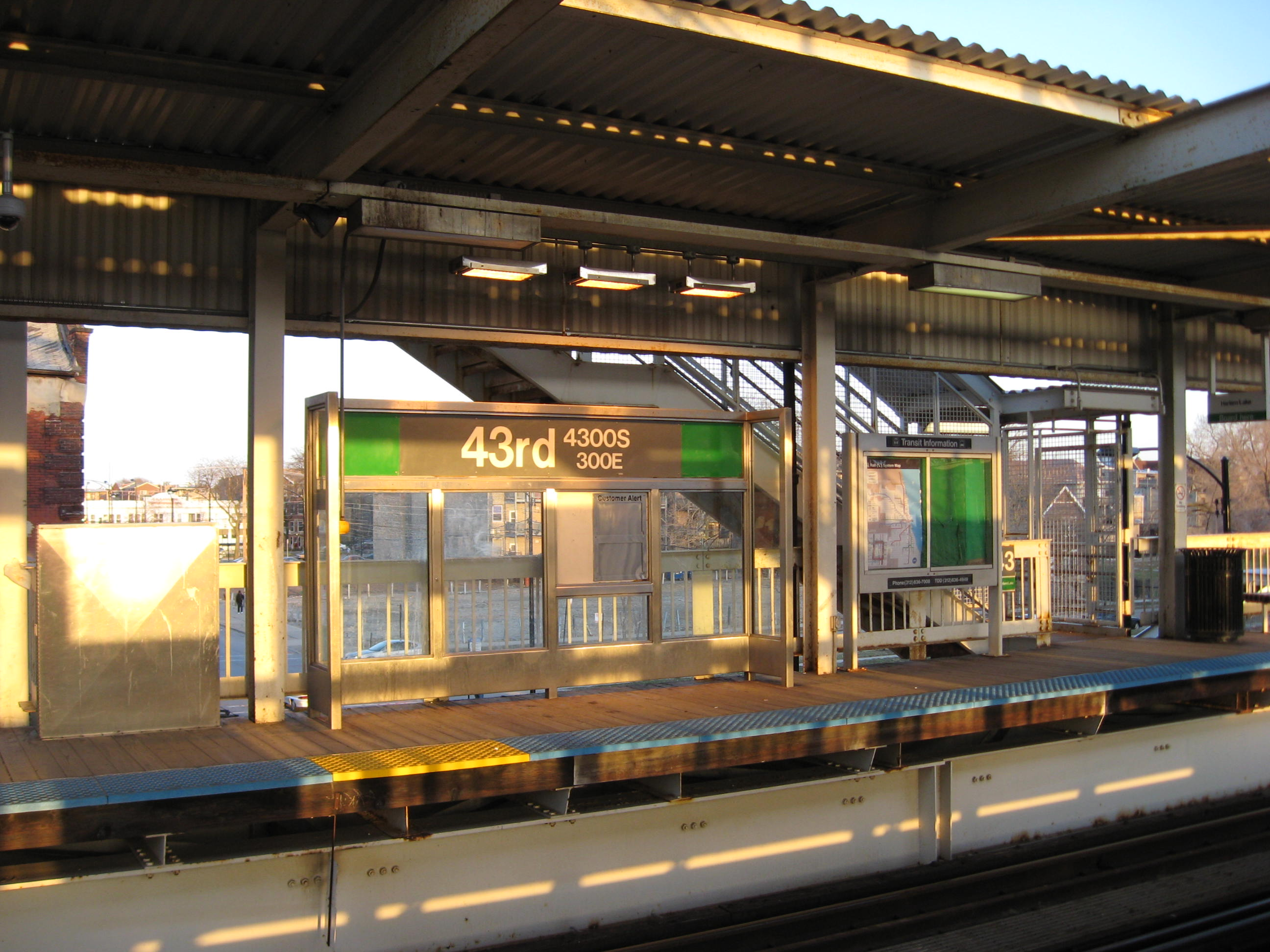 43rd Street CTA Station